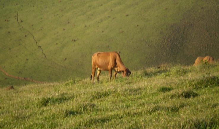 Bucolic Image